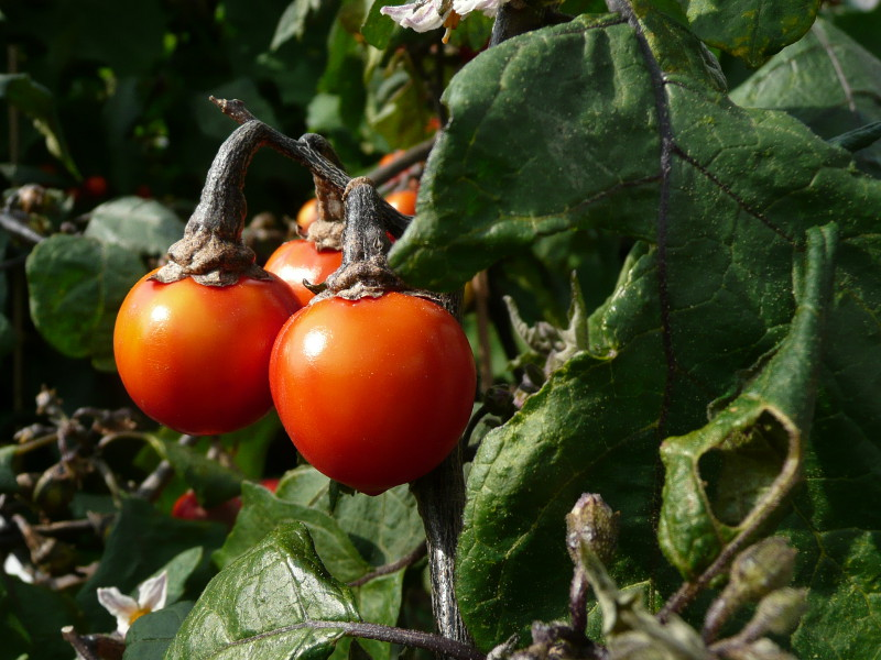 Solanum gilo 'Japanese Black Stem'